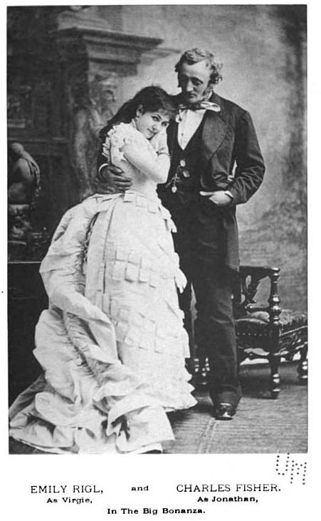 Photograph of Emily Rigl and Charles Fisher in 1875 play "The Big Bonanza"